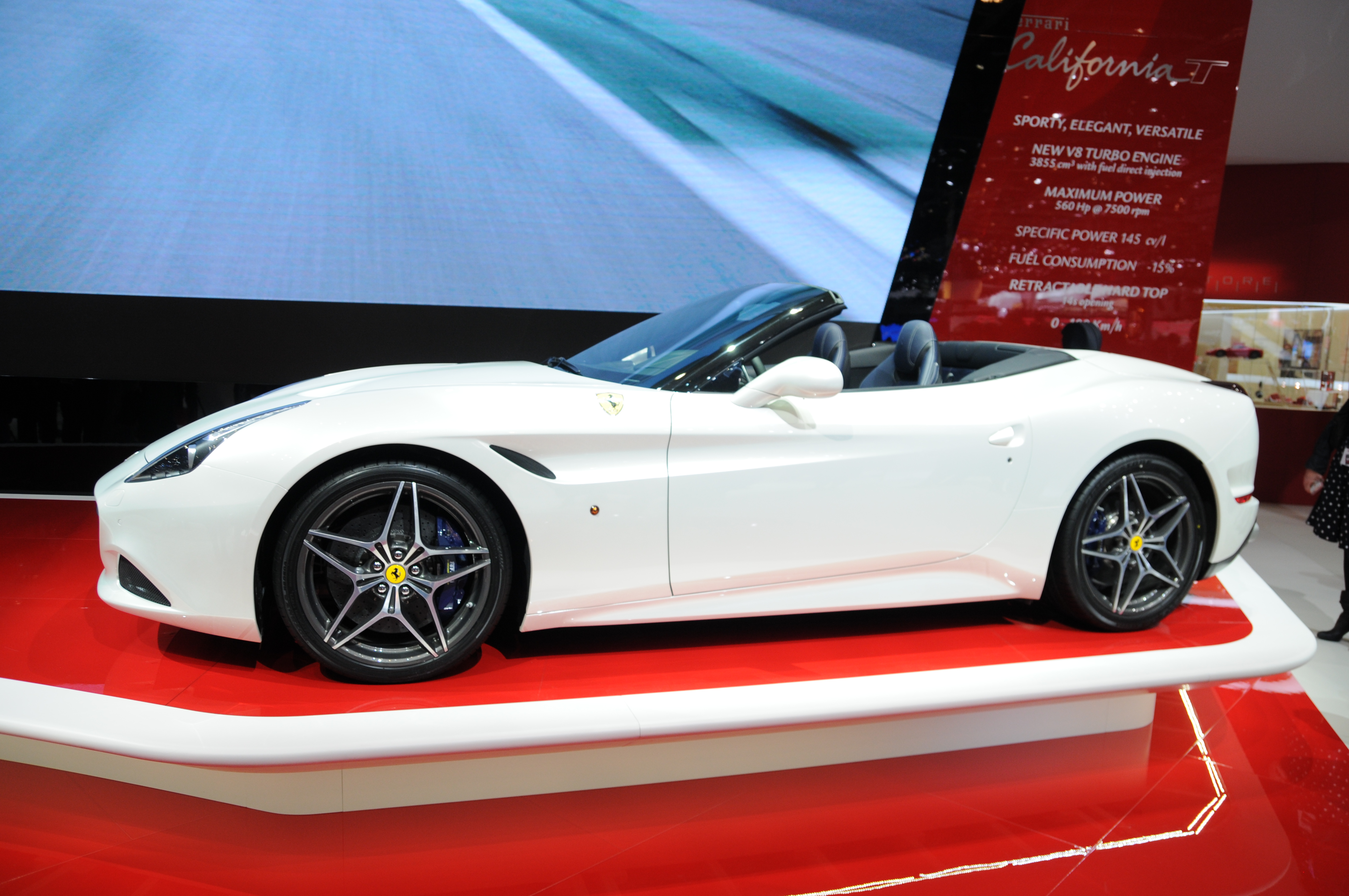 Geneva Motor Show 2014 (photo taken on the first press day)